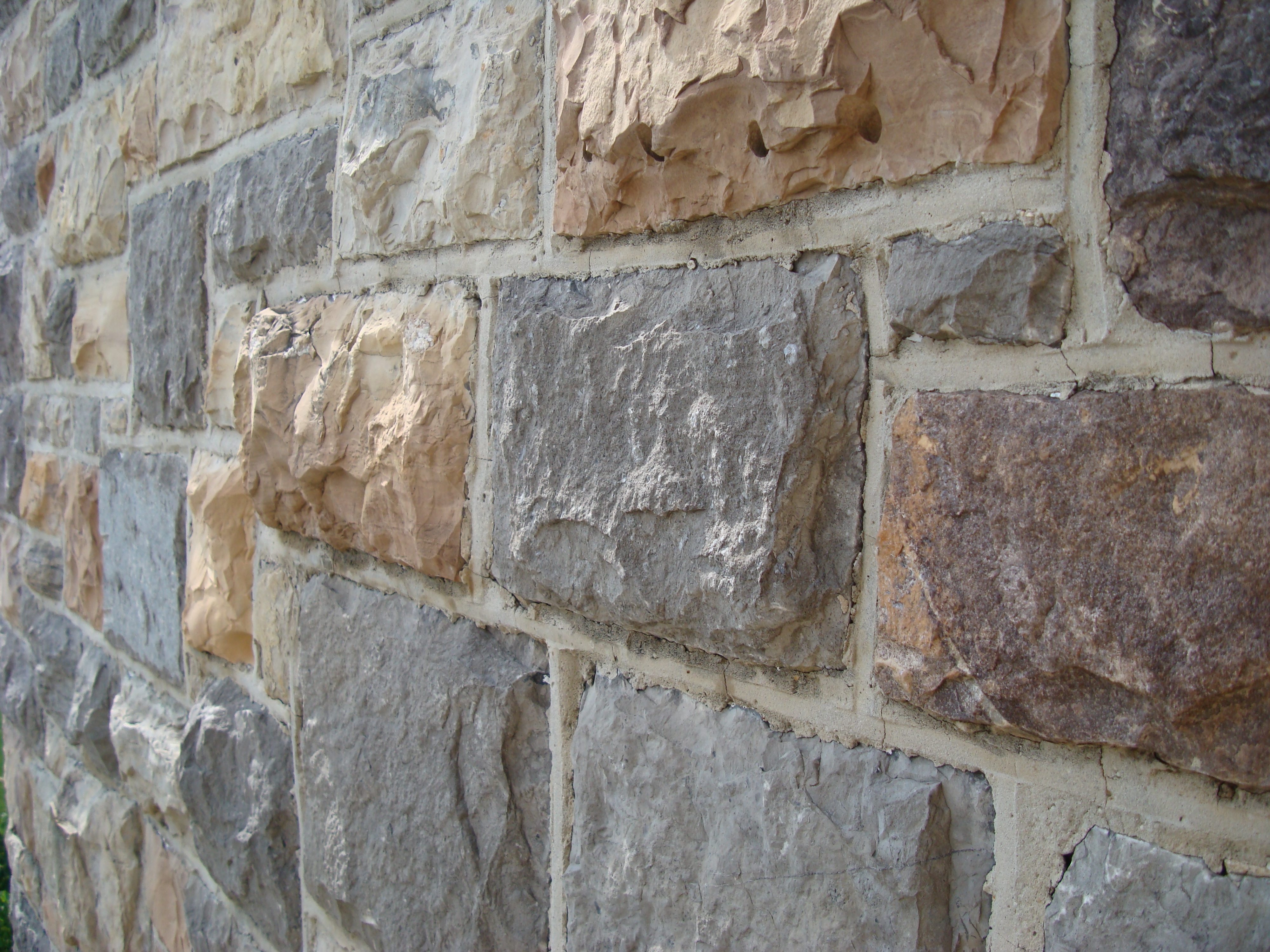 An example of Hokie Stone. Virginia Tech.